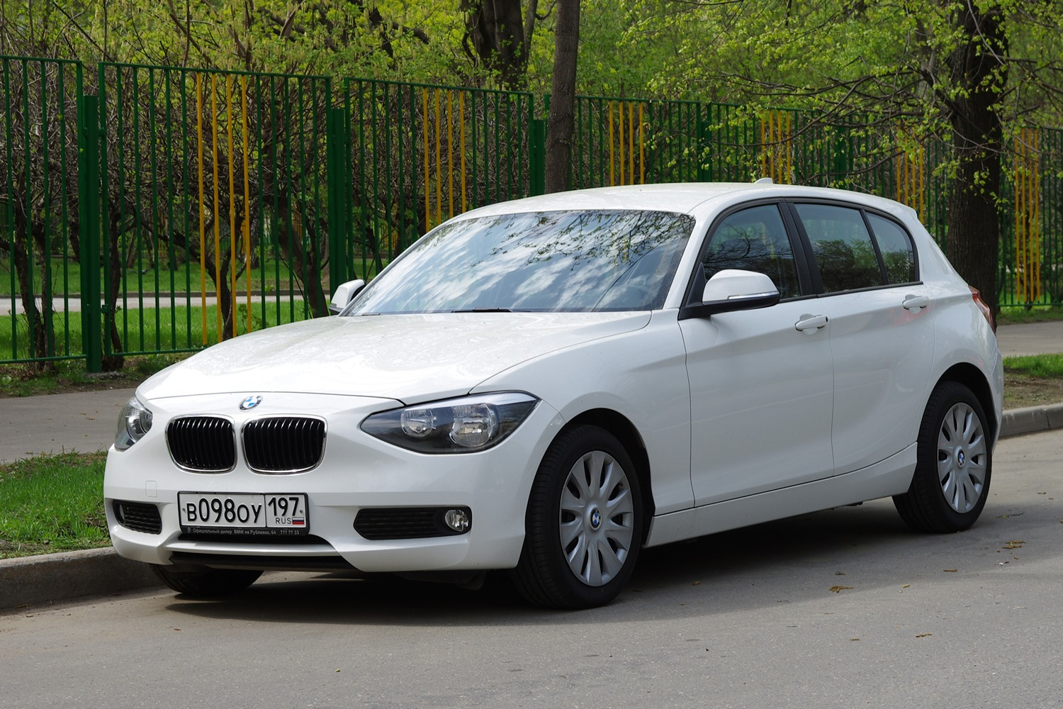 BMW 1 Series in Moscow